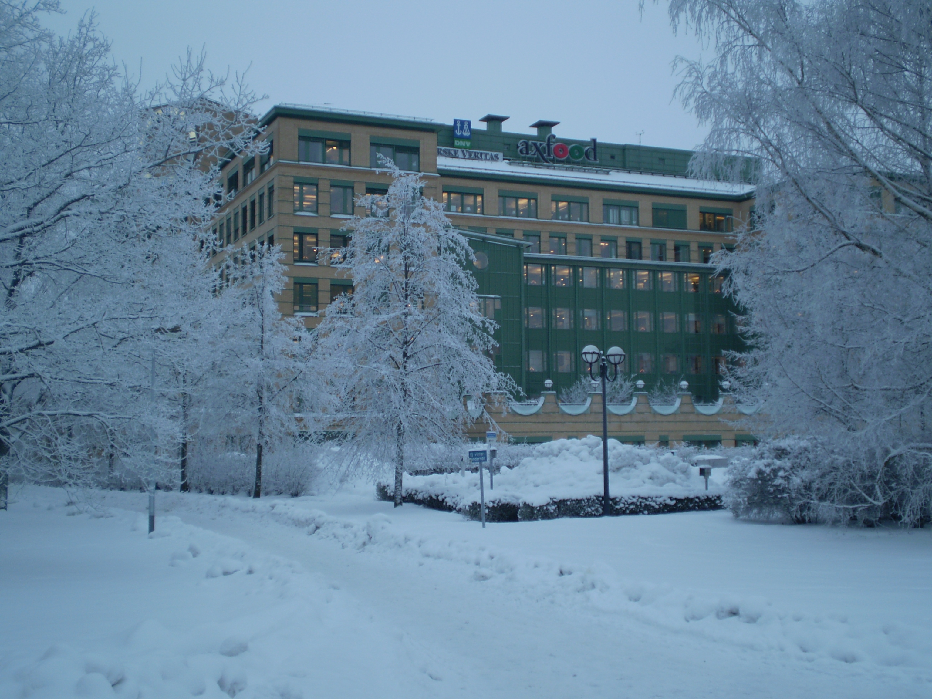 The headquarters of Axfood AB in Vreten in Solna at winter time